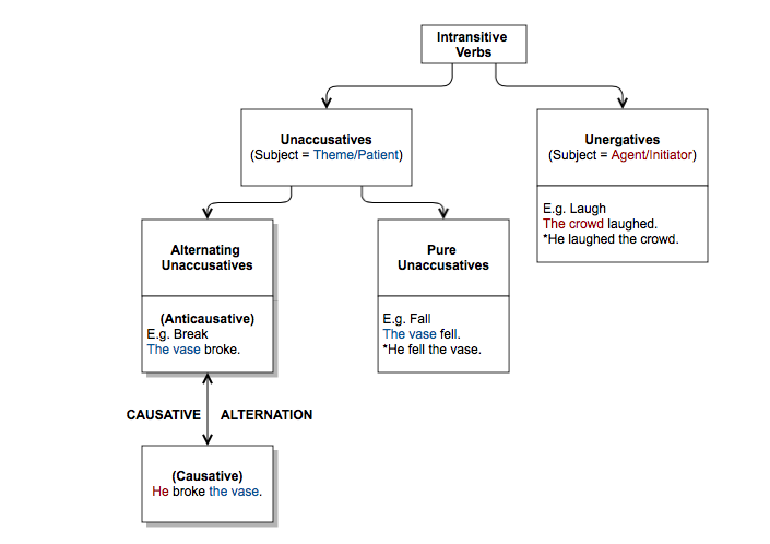 This is an illustrative flow chart designed to demonstrate the types of verb that can participate in the causative alternation.